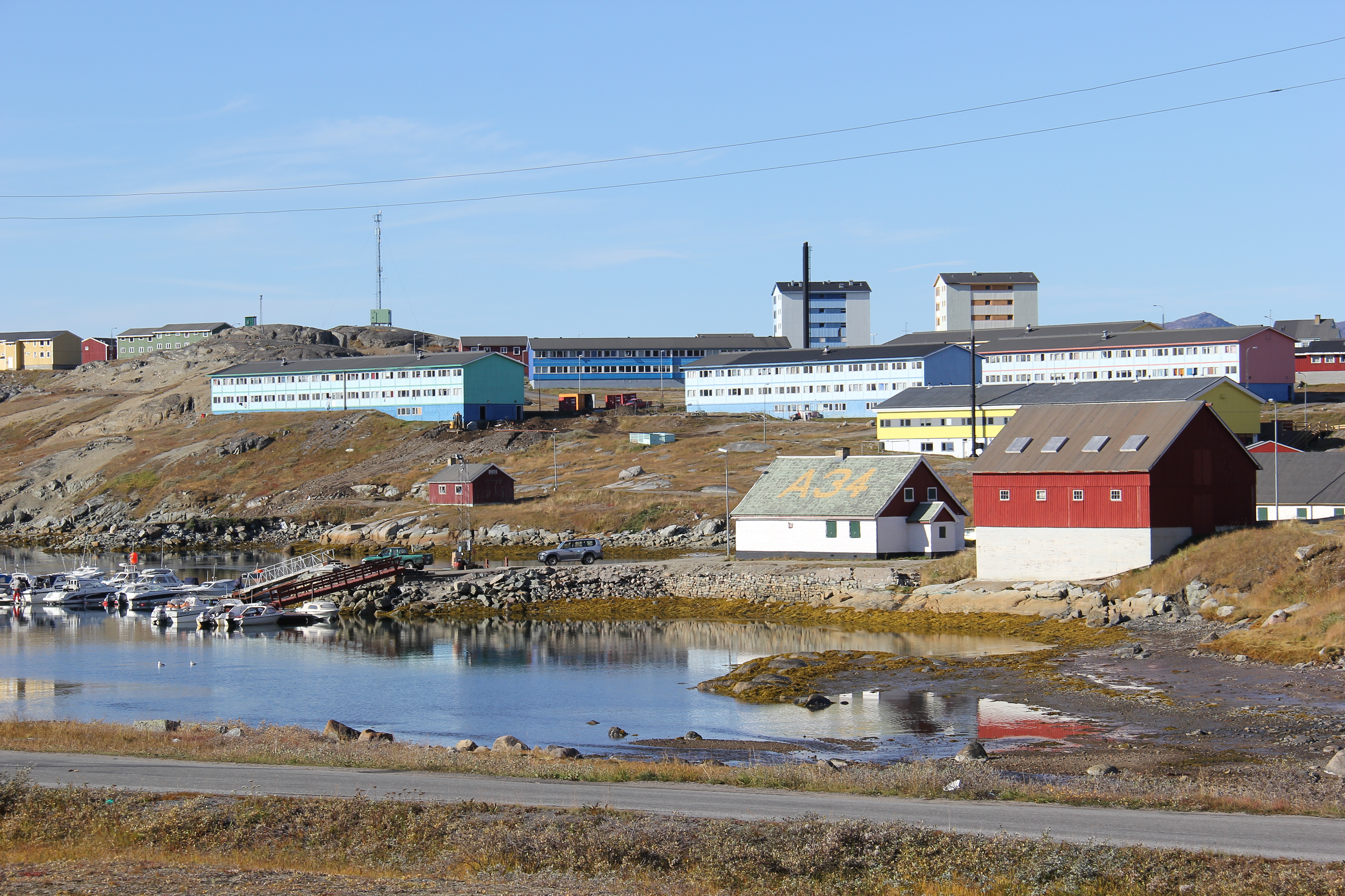 Narsaq - modern blocks of flats